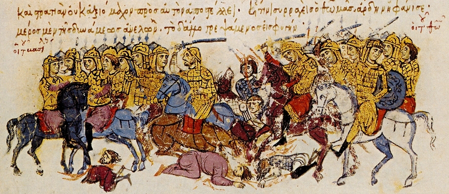 Thomas the Slav's troops defeat the imperial army in Asia Minor, during Thomas's revolt against Michael II the Amorian